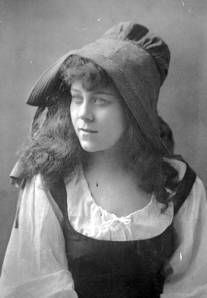 Loie Fuller (1862-1928) in Caprice, a play by Howard P. Taylor, staged at the Royal Globe Theatre in London in 1889. Note: Not to be confused with the play Un caprice by Alfred de Musset as wrongly stated in the "Image Details" on the NYPL website.